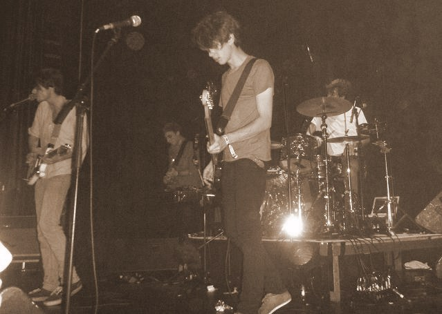 C/O POP Festival,24.06.2011